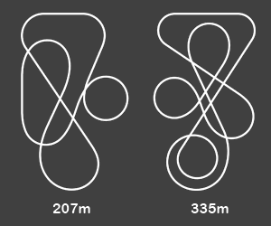 Modified from the original sourced from the official Vekoma website to add a background colour and labelling.